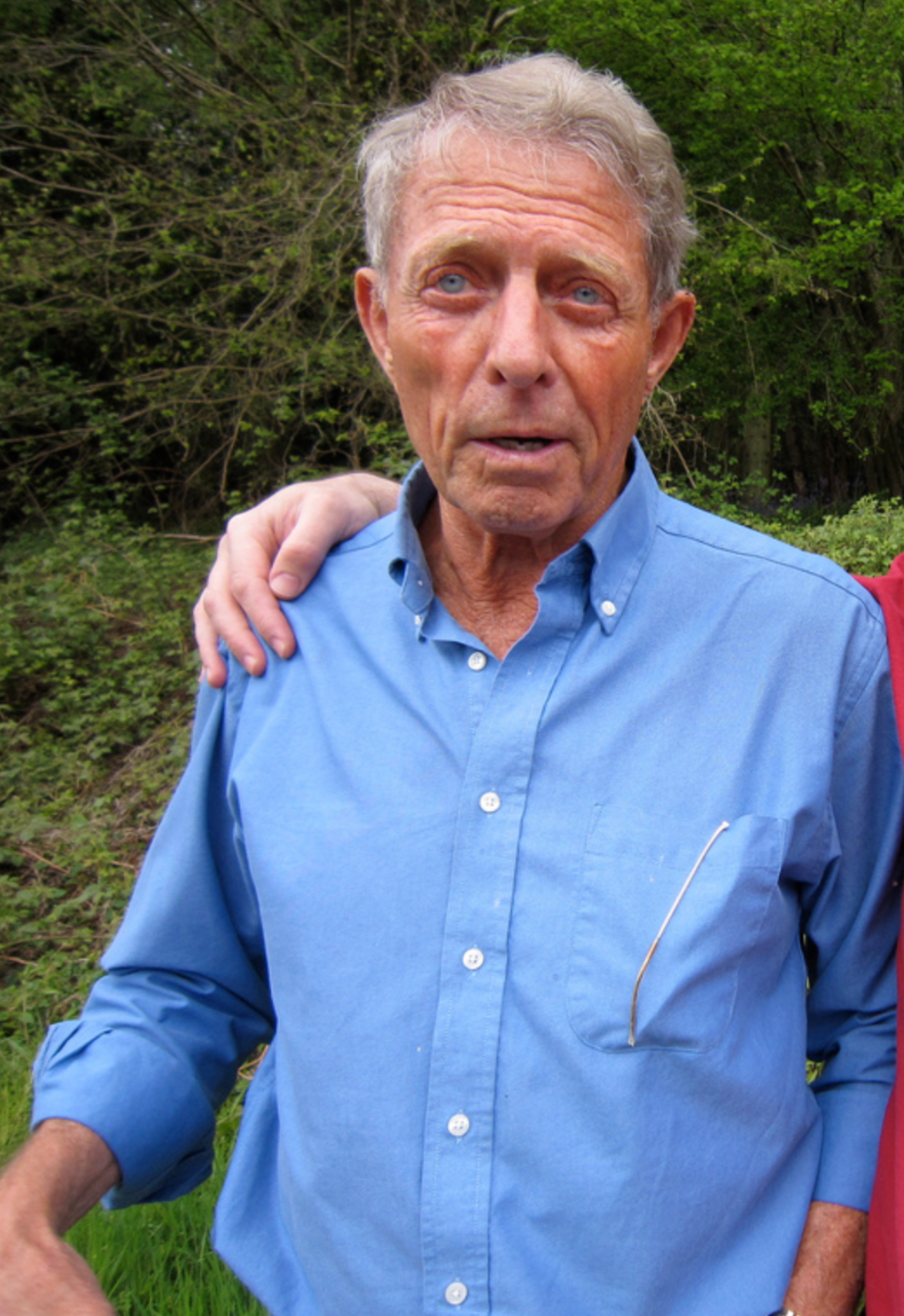 Photo of William Woollard in 2010, cropped from original photo